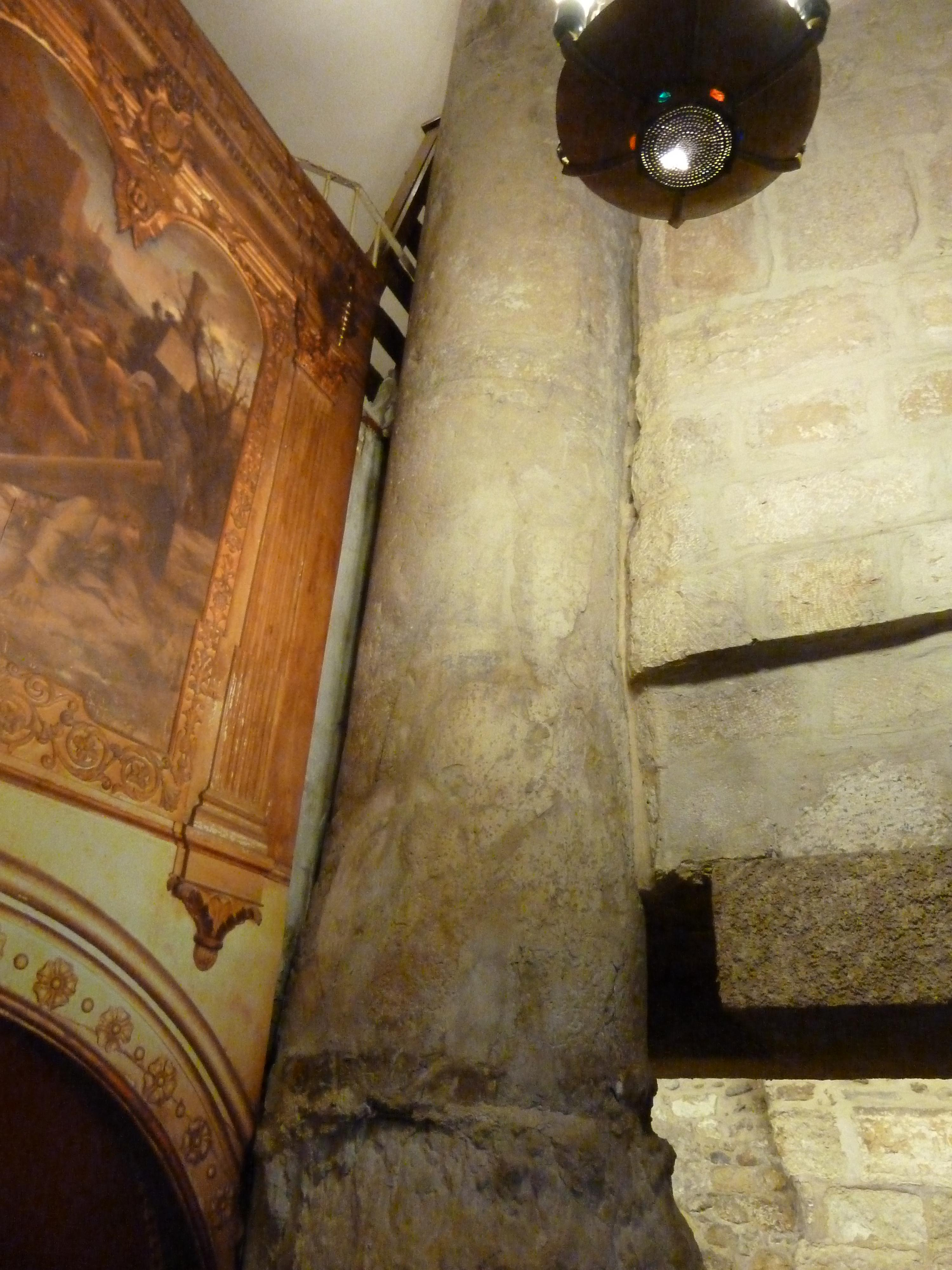 Old Jerusalem seventh station - an ancient Roman column located inside the Franciscan chapel marks the second fall.